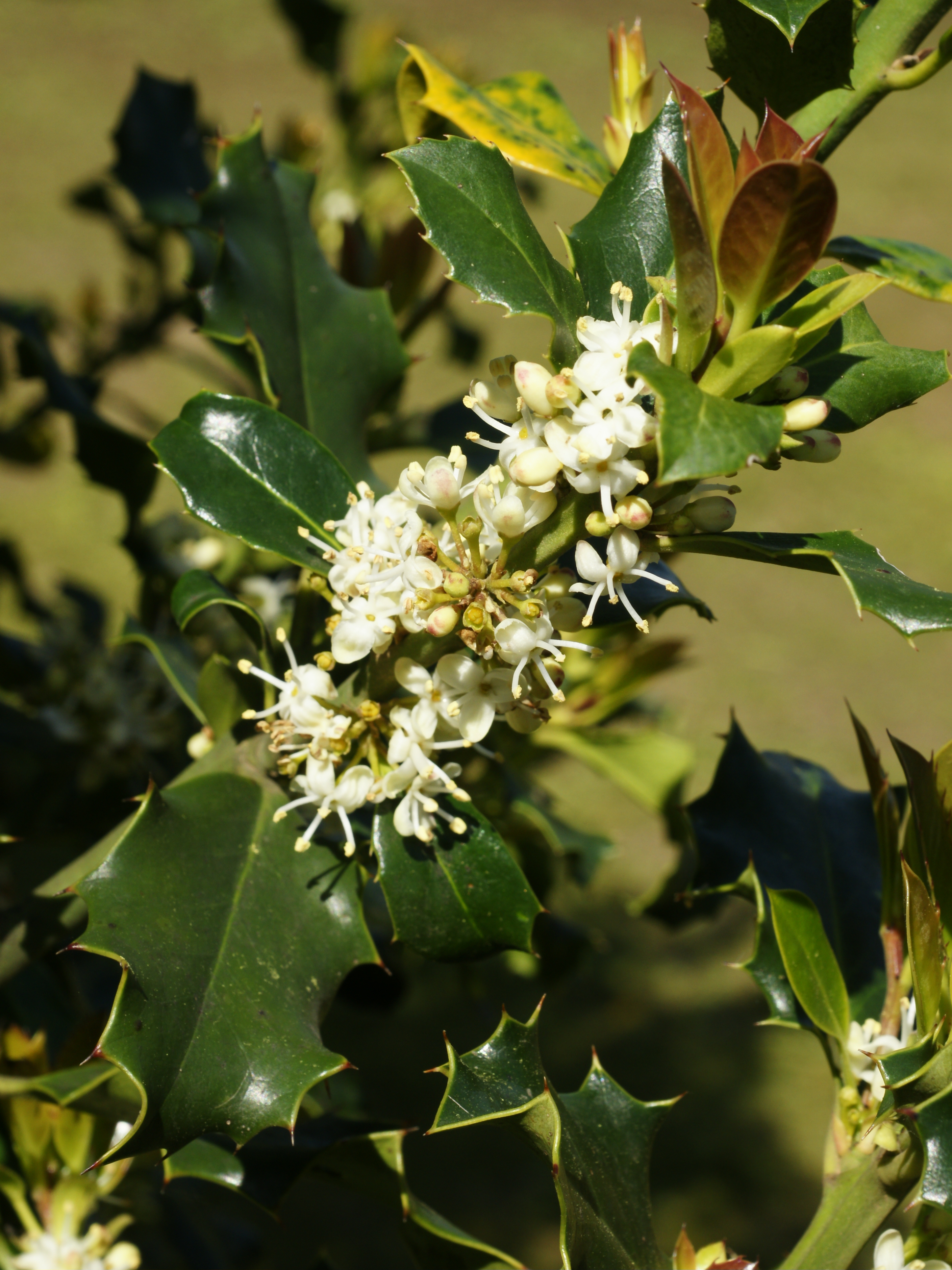 Holly at the Nuraghe Losa, Sardinia, Italy.